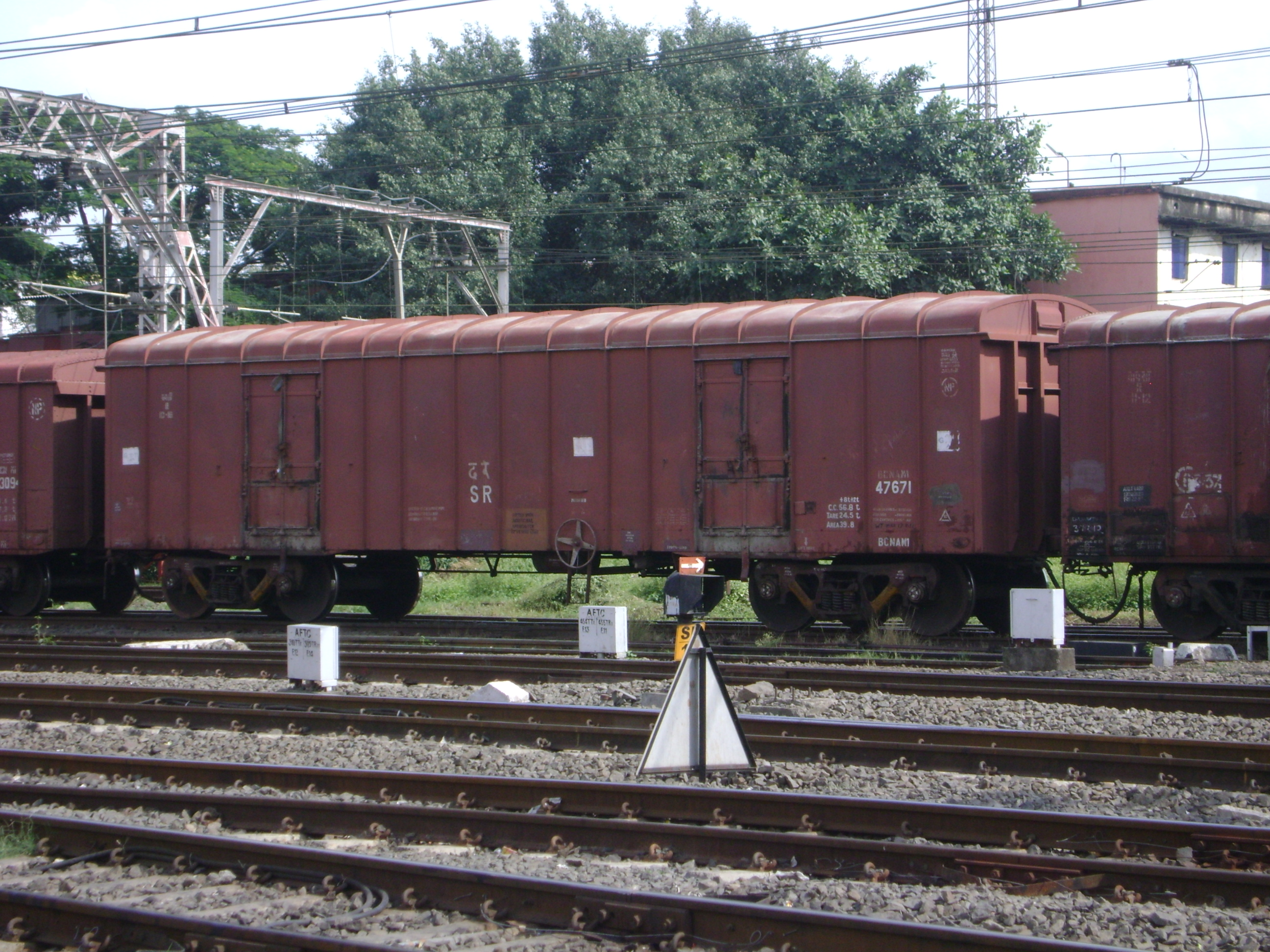 Captured from a running train